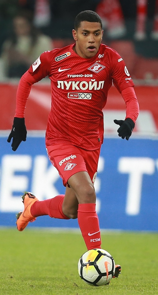 Pedro Rocha with FC Spartak Moscow in a game against FC SKA-Khabarovsk.